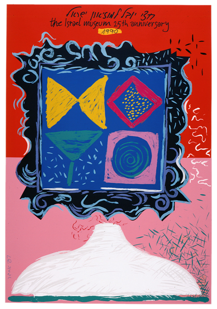 The Israel Museum 25th Anniversary, 1990